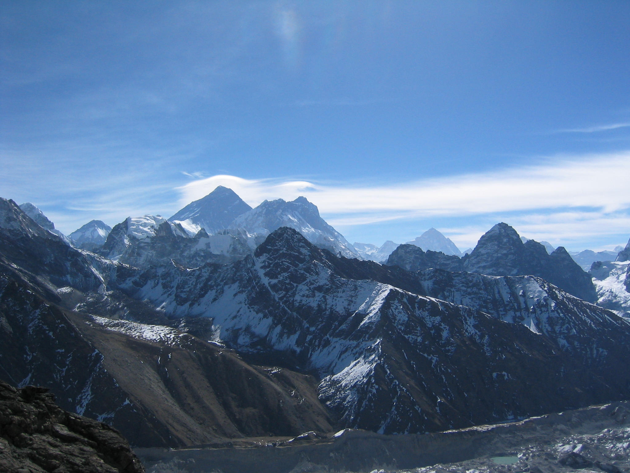 File:Everest, Lhotse and Makalu from Gokyo Ri. Taken by Gavin Challand, April 2006